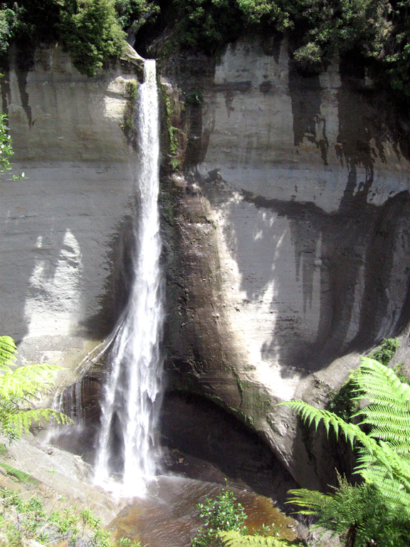 This is a photo of Mt. Damper Falls in New Zealand. I took it myself. Use it how you like.